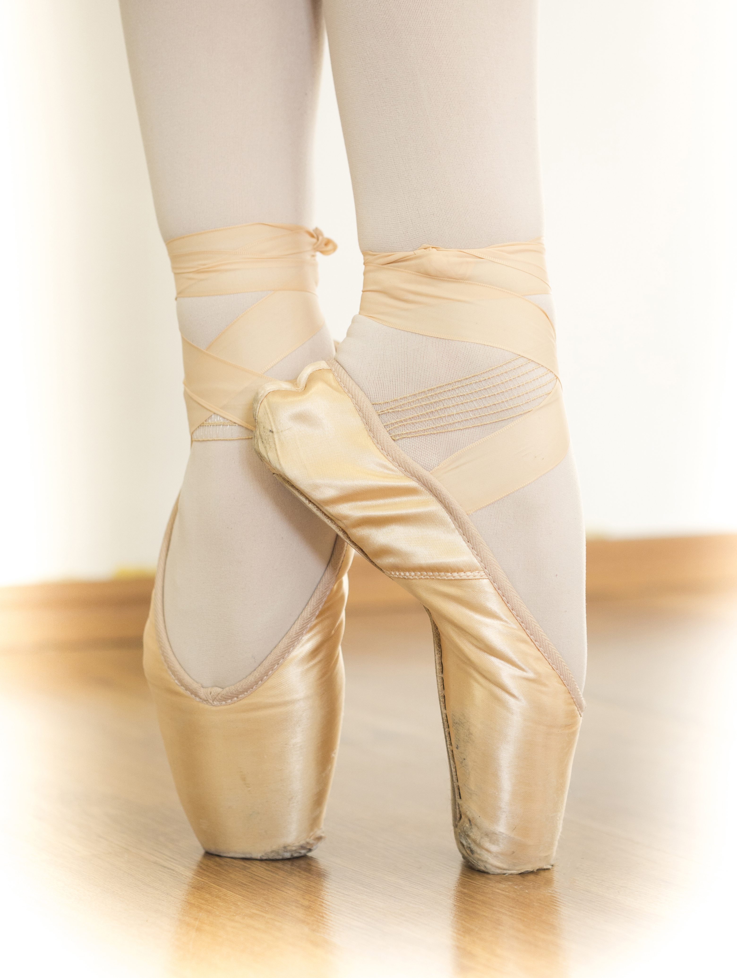 Pointe ballet shoes in Russian ballet school.